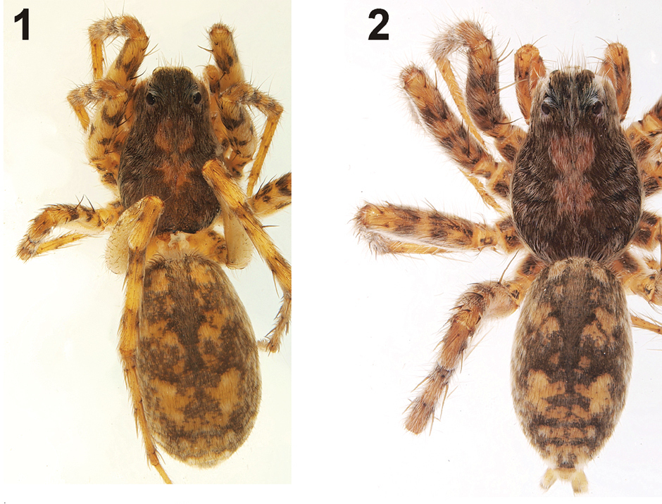 Xerolycosa mongolica. 1: female, 2: male